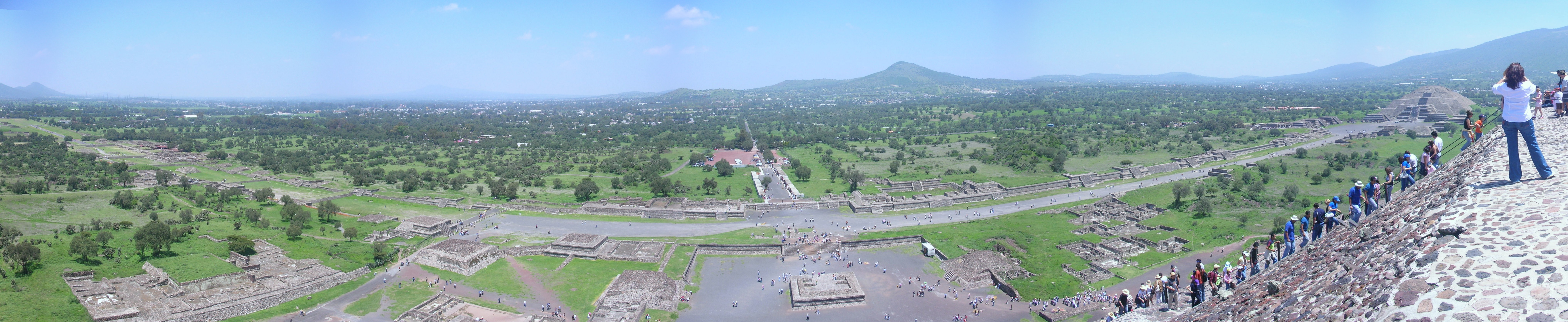 Panorama of the Avenue of the Dead from the Pyramid of the Sun